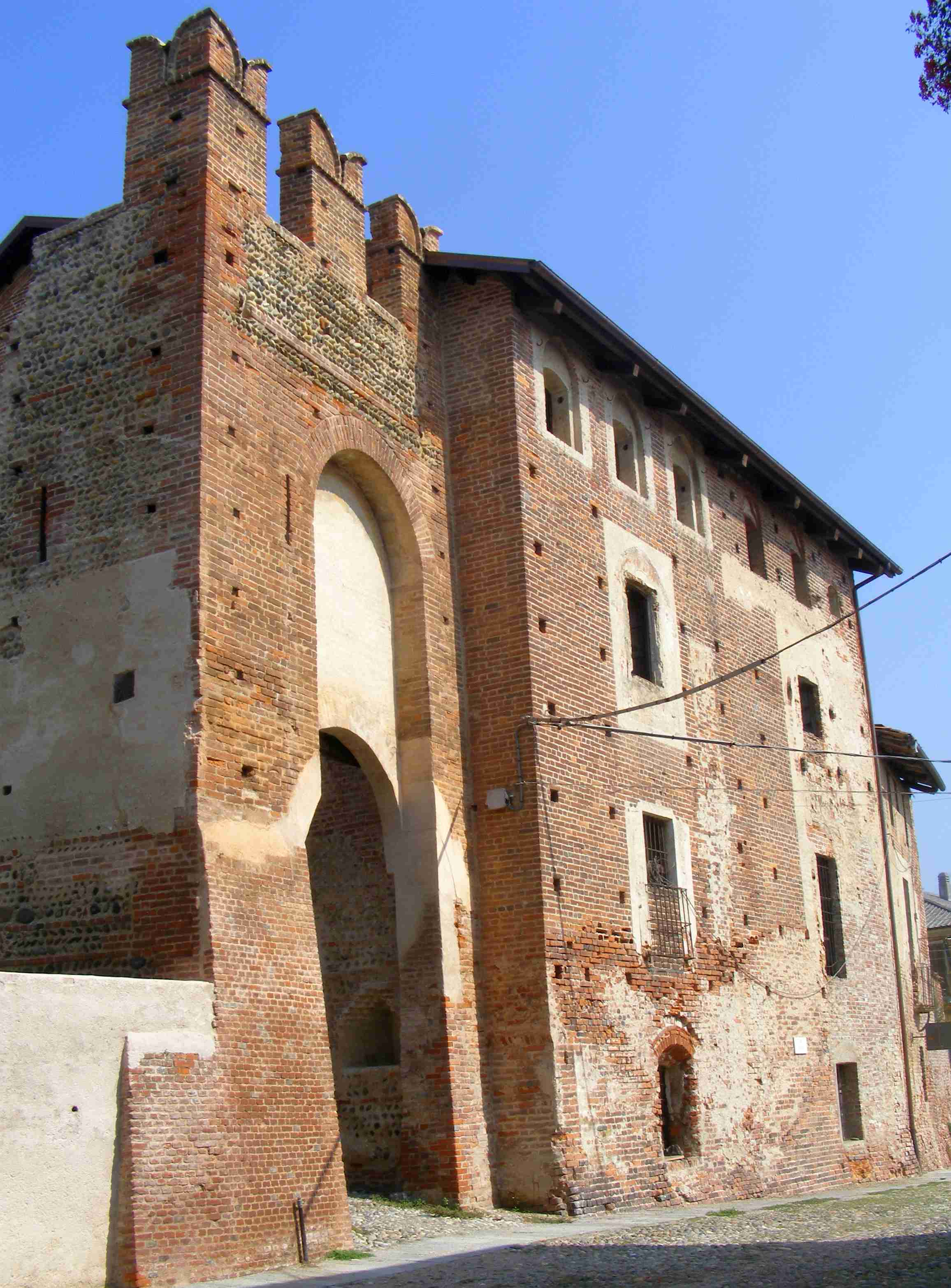 Buronzo castle (VC, Italy)